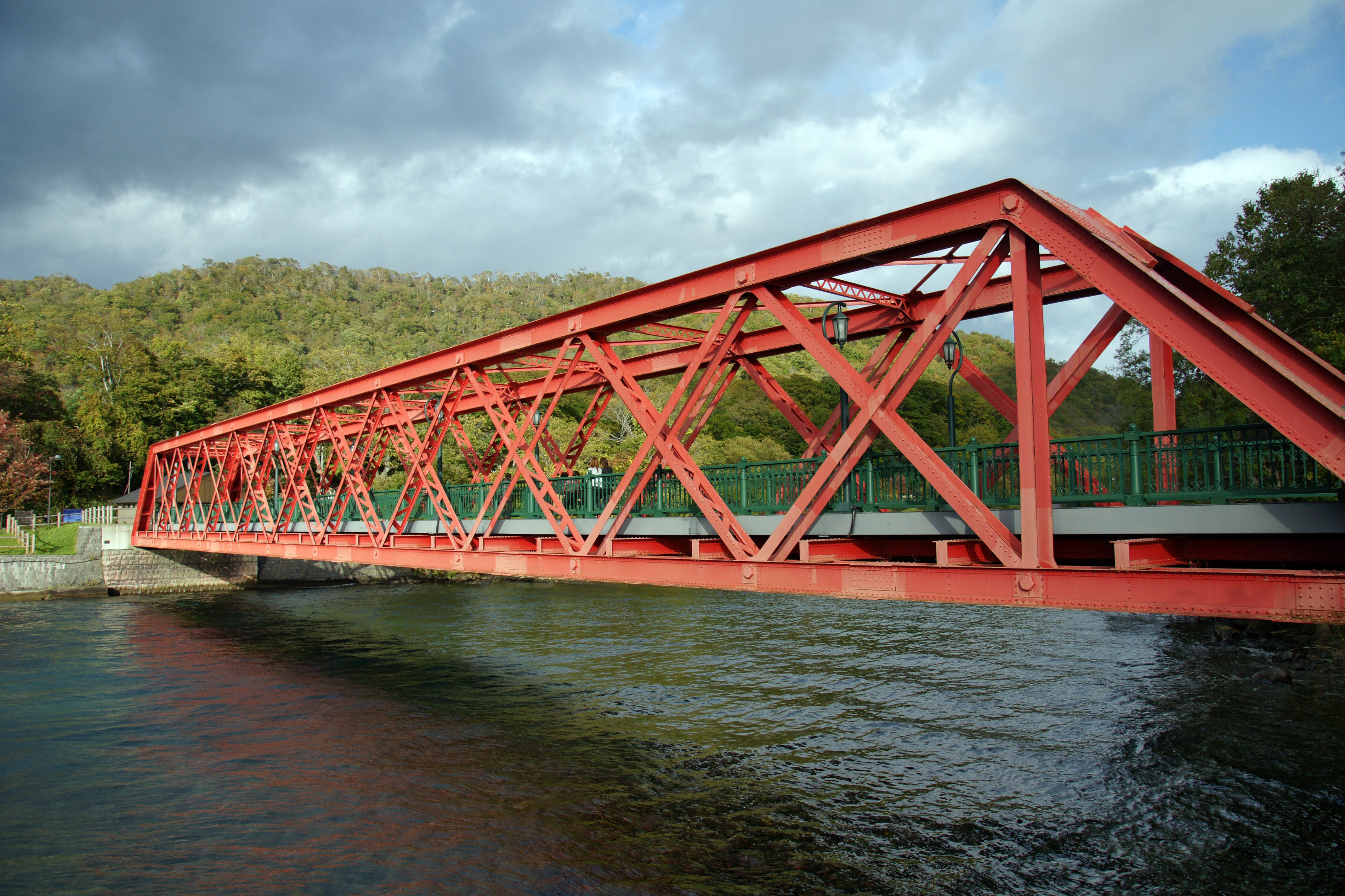 Chitose River, Chitose, Hokkaido prefecture, Japan